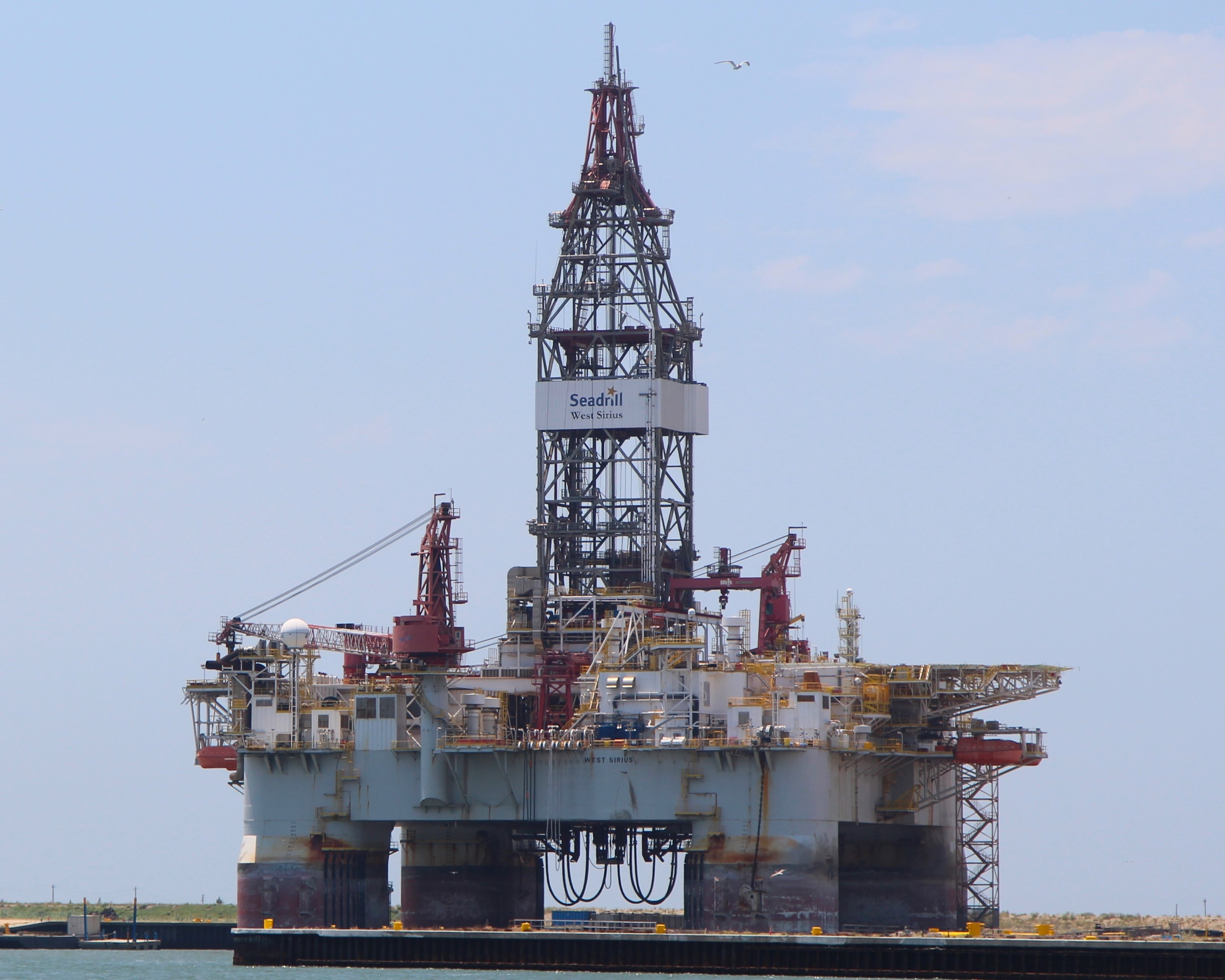 Stacked, waiting for a new contract. Sign of the times in 2016.